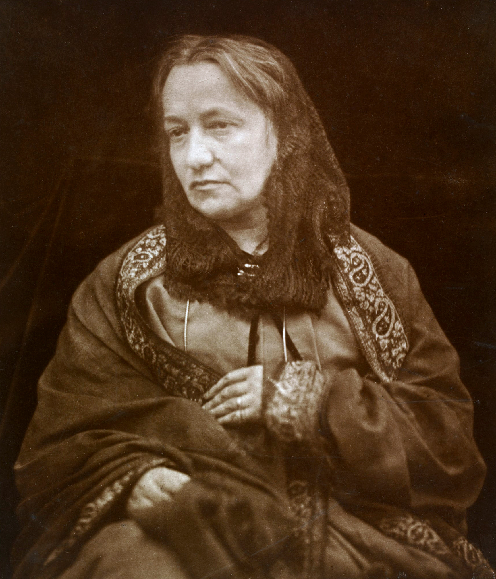 Julia Margaret Cameron, by Henry Herschel Hay Cameron, 1870. Albumen print, George Eastman House.